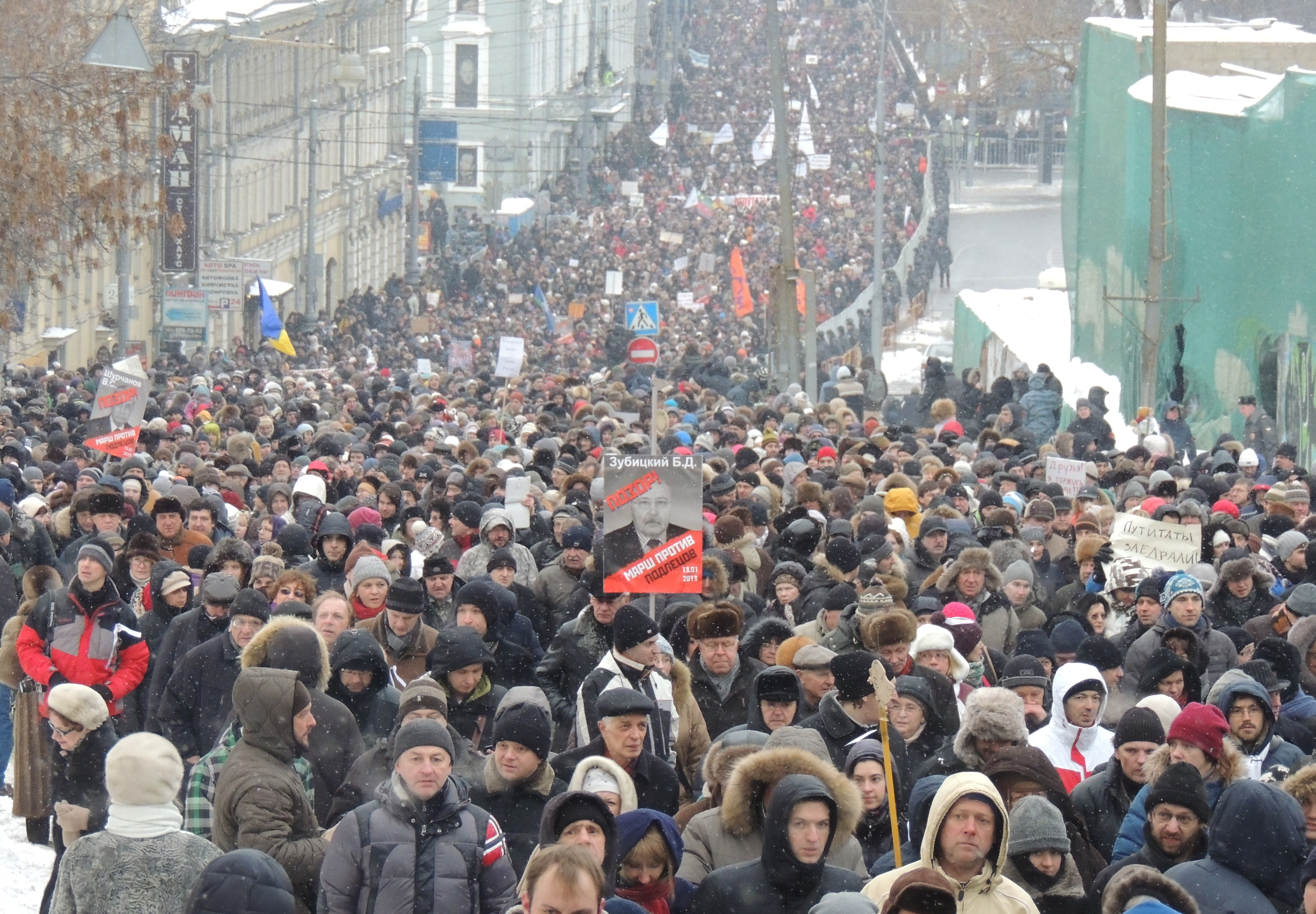 Opposition rally at Moscow 2013-01-13, Trubnaya Square